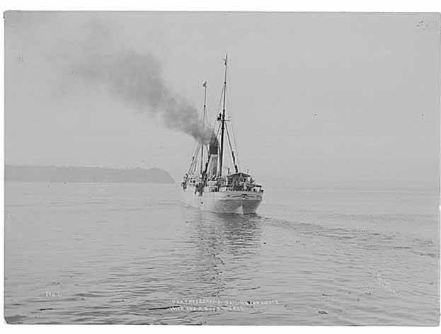 Part of a series depicting troops assembling at Fort Lawton and Seattle before embarking to China for the Boxer Rebellion . Caption on image: U.S.A.T. Rosecrans sailing for Nome. With Co's A and K 7th Reg. No. 1. Peiser. Seattle . Peiser 10098